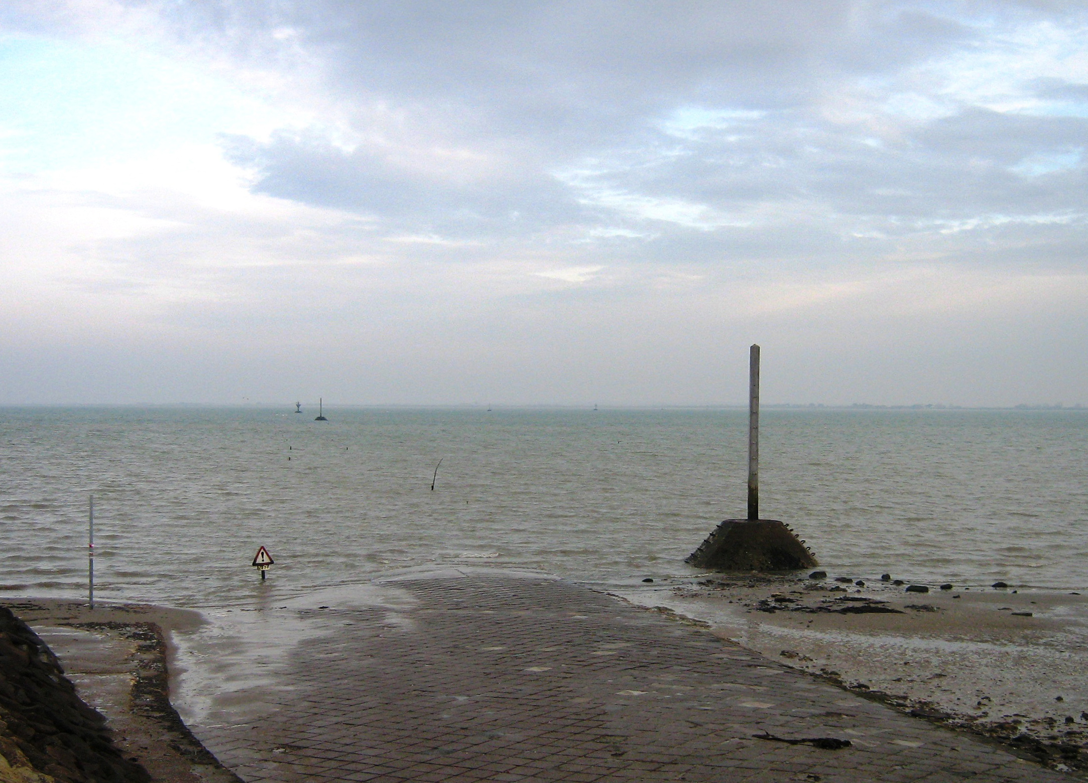 Sight at high tide of the passage du Gois, joining île de Noirmoutier in Vendée to France, and passable only at low tide.